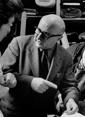 Russian painter and stage designer Eugene Berman talking with a woman showing some sketches. Italy, 1960s.